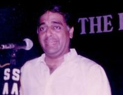 Carnatic vocalist T. N. Sheshagopalan singing at Kochi, 1995